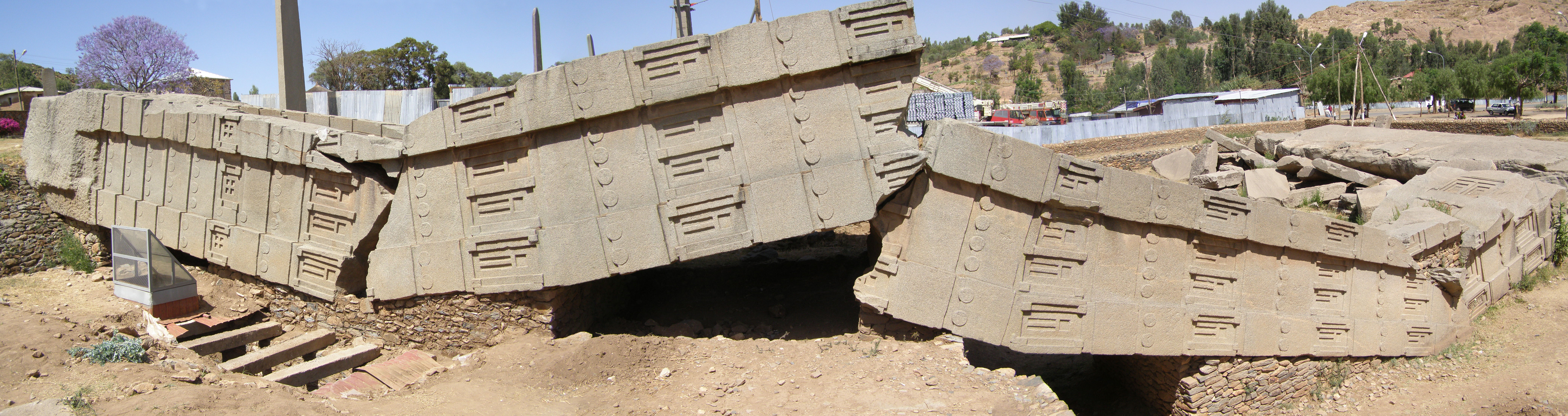 Highest monolithic stone (broken) at Axum - Ethiopia